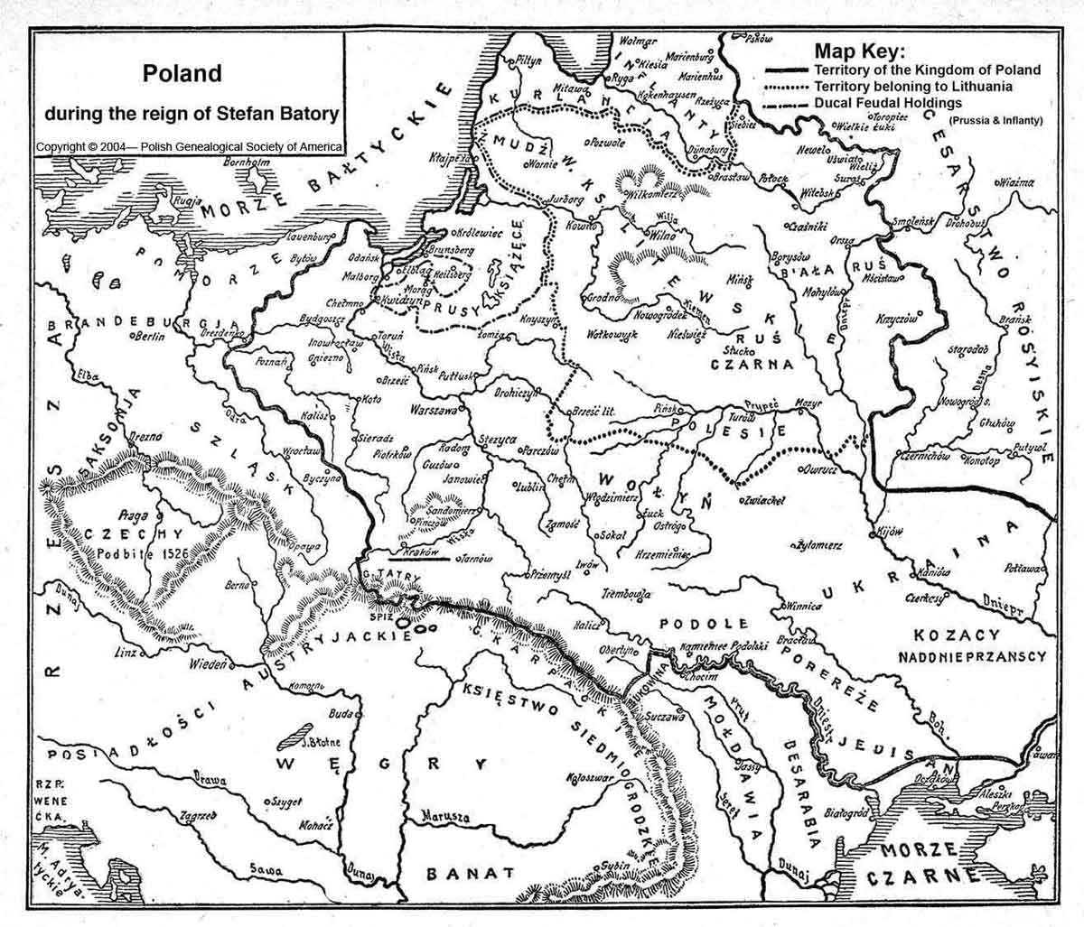 The Historical Atlas of Poland was compiled by Jozef Nowina Sroczynski (Gimnazjum teacher); the initials C.K. indicate he taught at a school in the Austrian Empire, presumably in Galicia]. The atlas was published by W. Dyniewicz, Chicago, IL - approximately 1910.